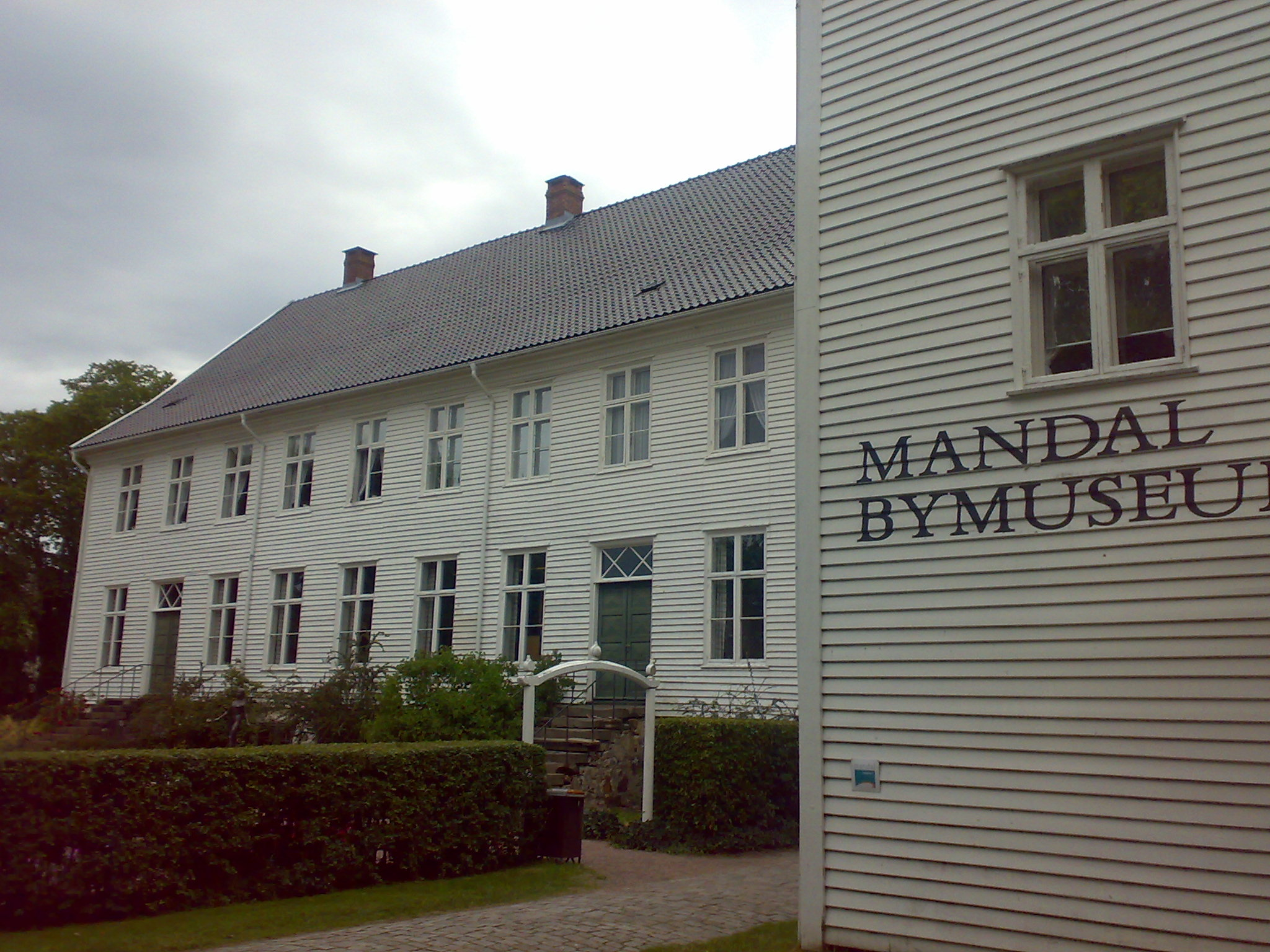 Mandal Bymuseum (Mandal City Museum), including Amaldus Nielsen paintings collection. Mandal, Norway